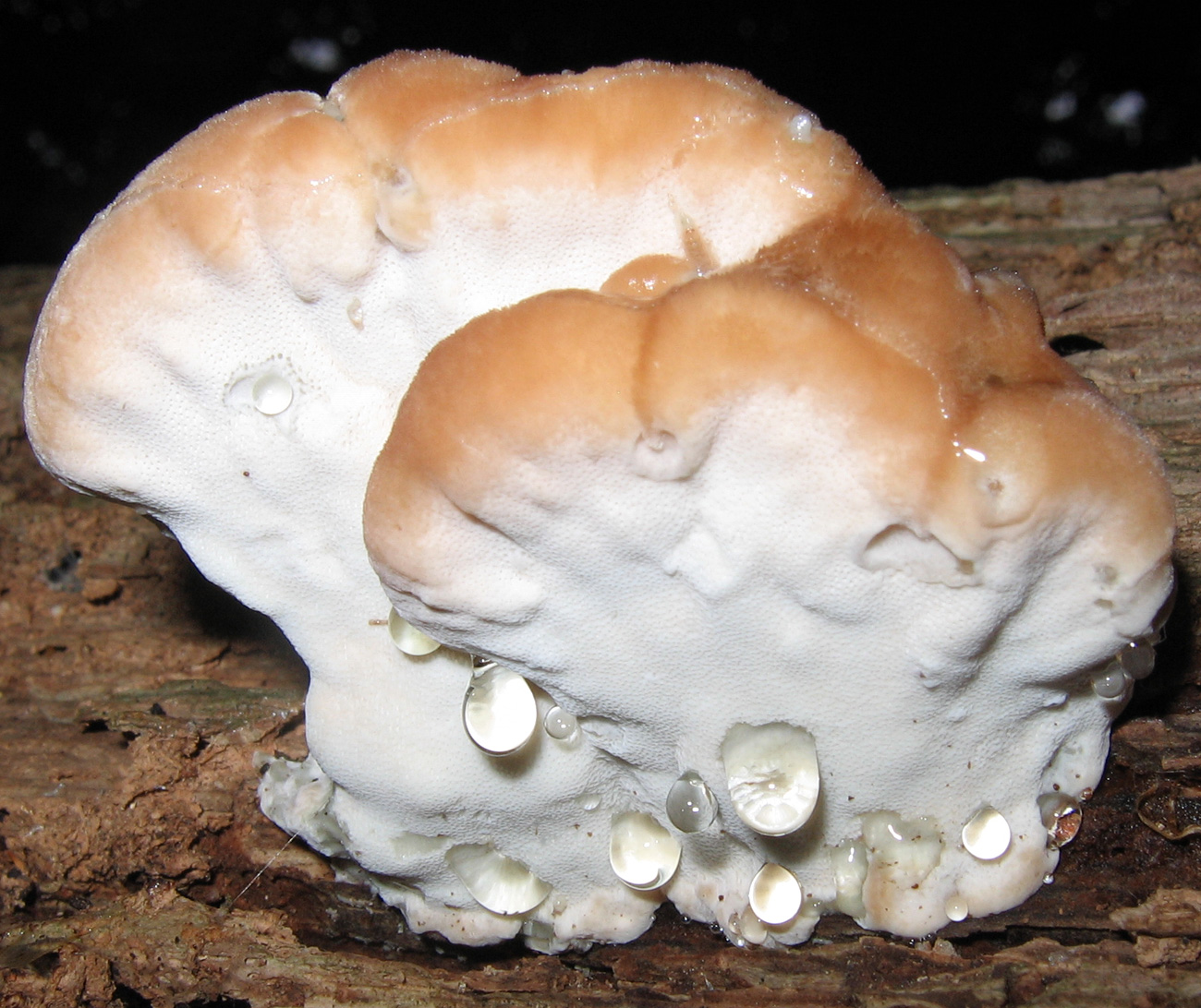 Fomitopsis spraguei (Berk. & M.A. Curtis) Gilb. & Ryvarden Location: Montgomery County, Maryland, USA Observation Notes: These were growing towards the end of an old rotten log. For more information about this, see the observation page at Mushroom Observer.